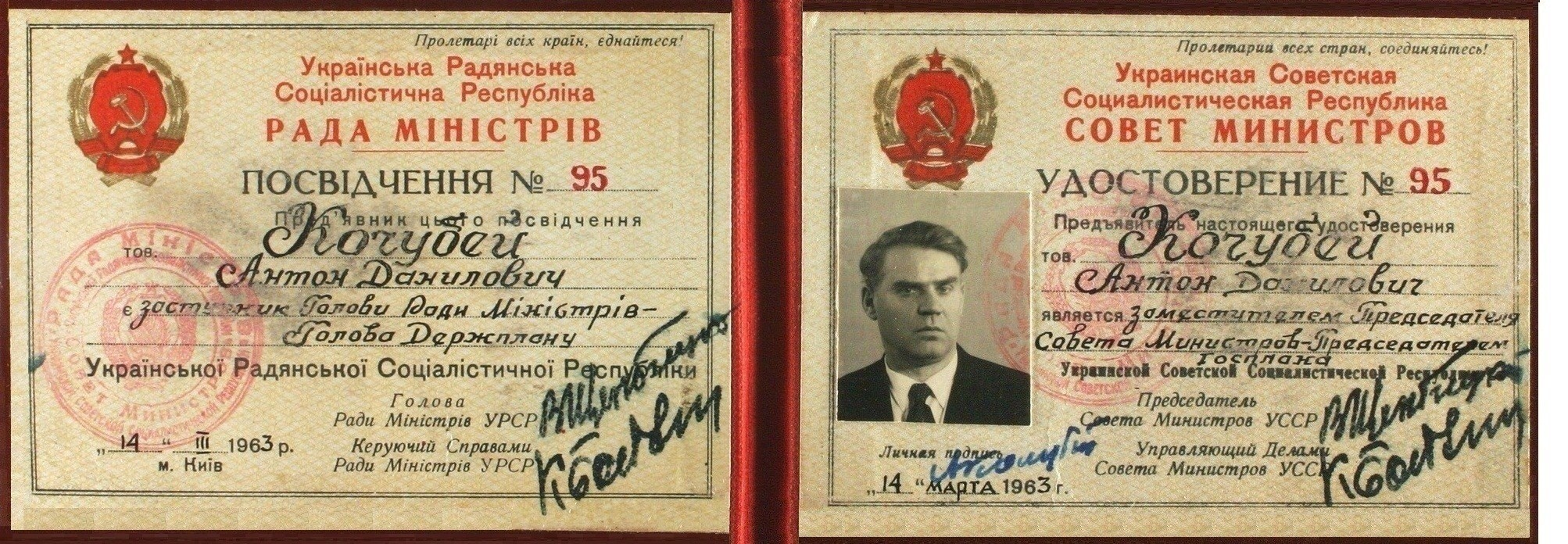 Identity cards of the Deputy Chairman of the Council of Ministers of the Ukrainian SSR - Ukrainian Soviet socialist Republic (1963 y.)